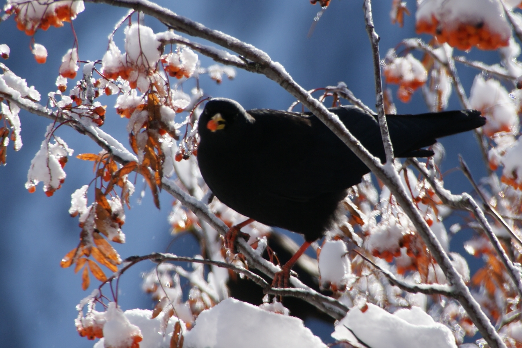 Alpine Chough